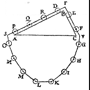 Simon Stevin scientist Clootcrans